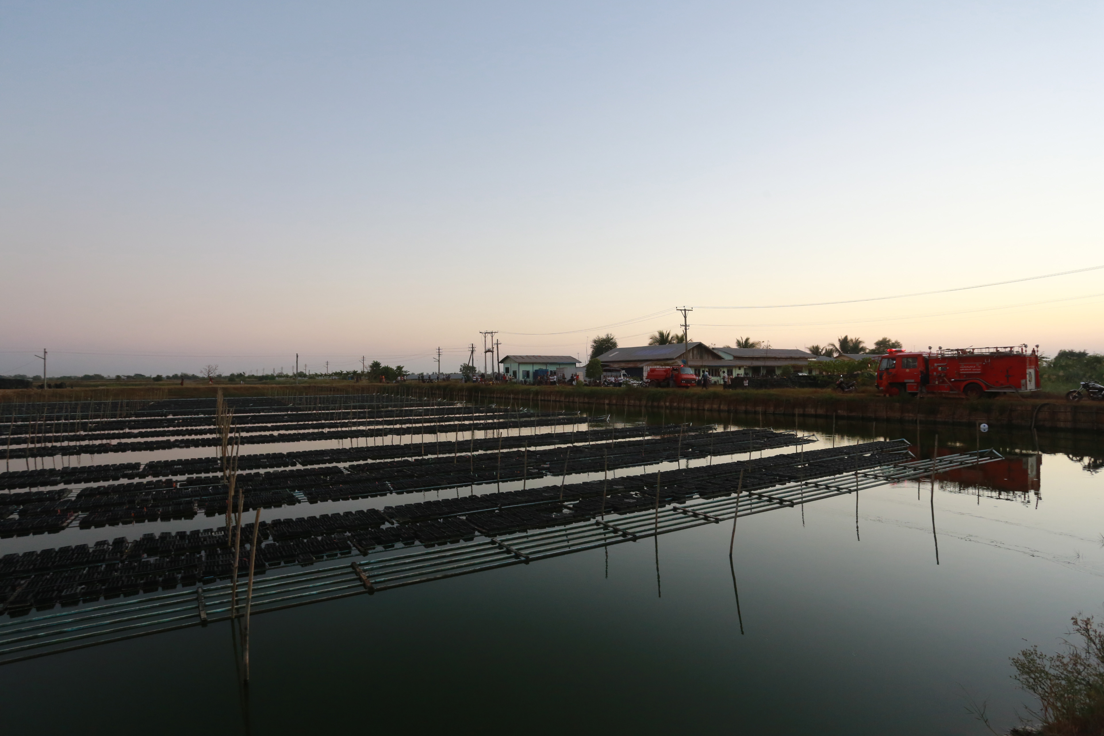 A crab livestock farm is seen at Thilawa Industrial Zone in Yangon, Myanmar on 11 January 2013.